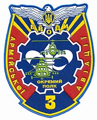 3rd Army Aviation Regiment